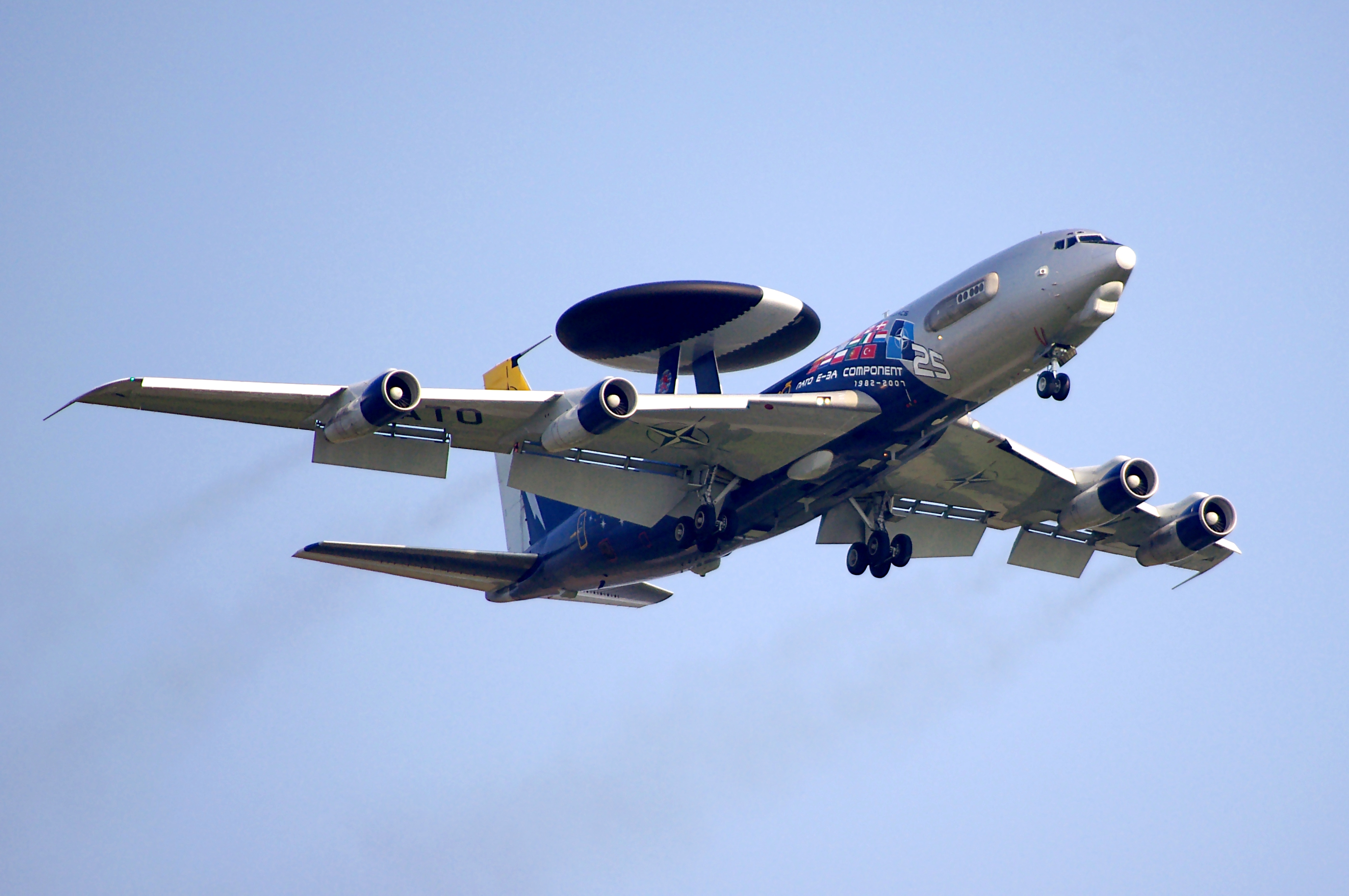 NATO Boeing E-3 Sentry AWACS flyby on Radom Air Show 2011